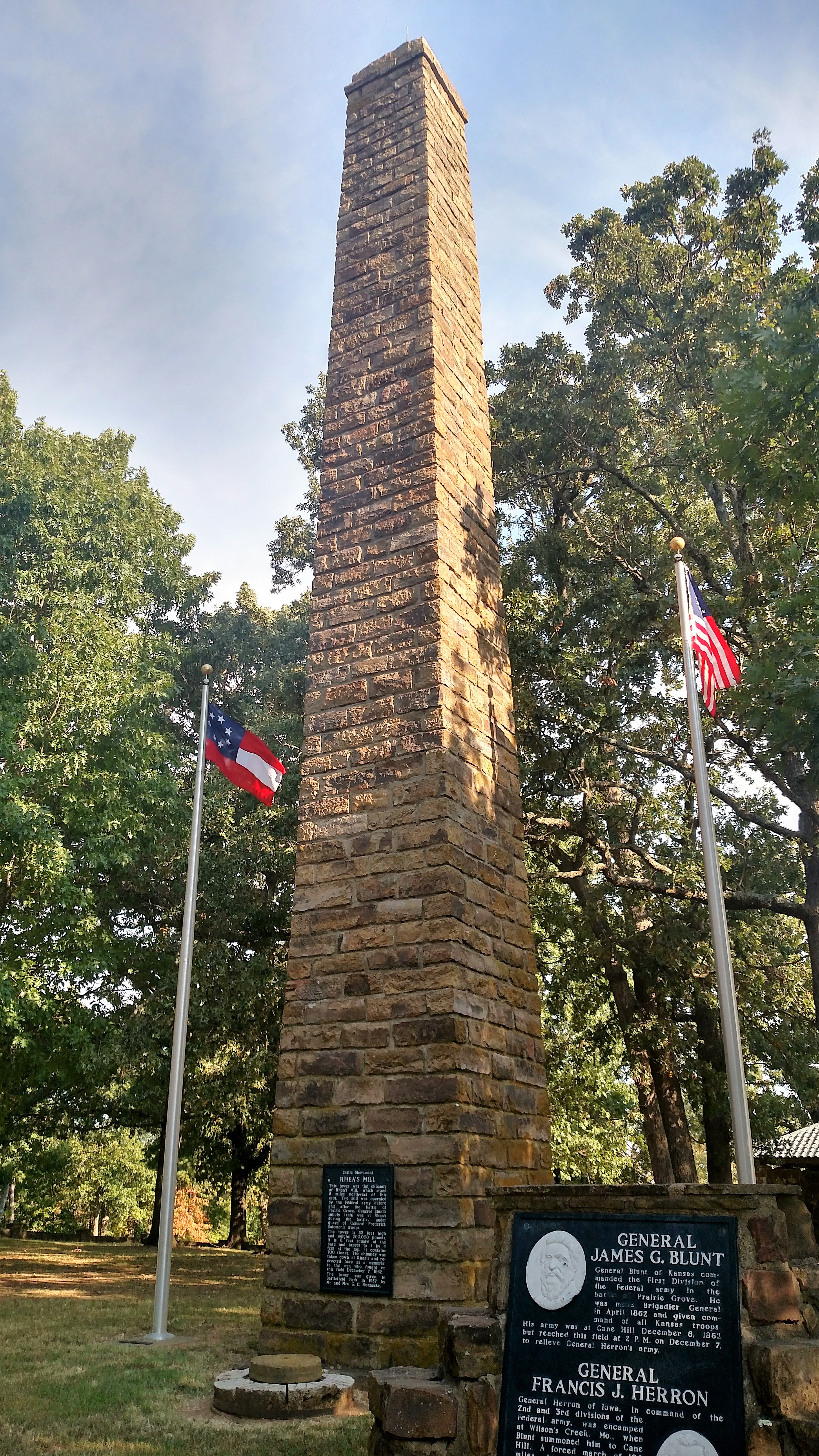 Monument to the Battle of Rhea's Mill in Prairie Grove, AR